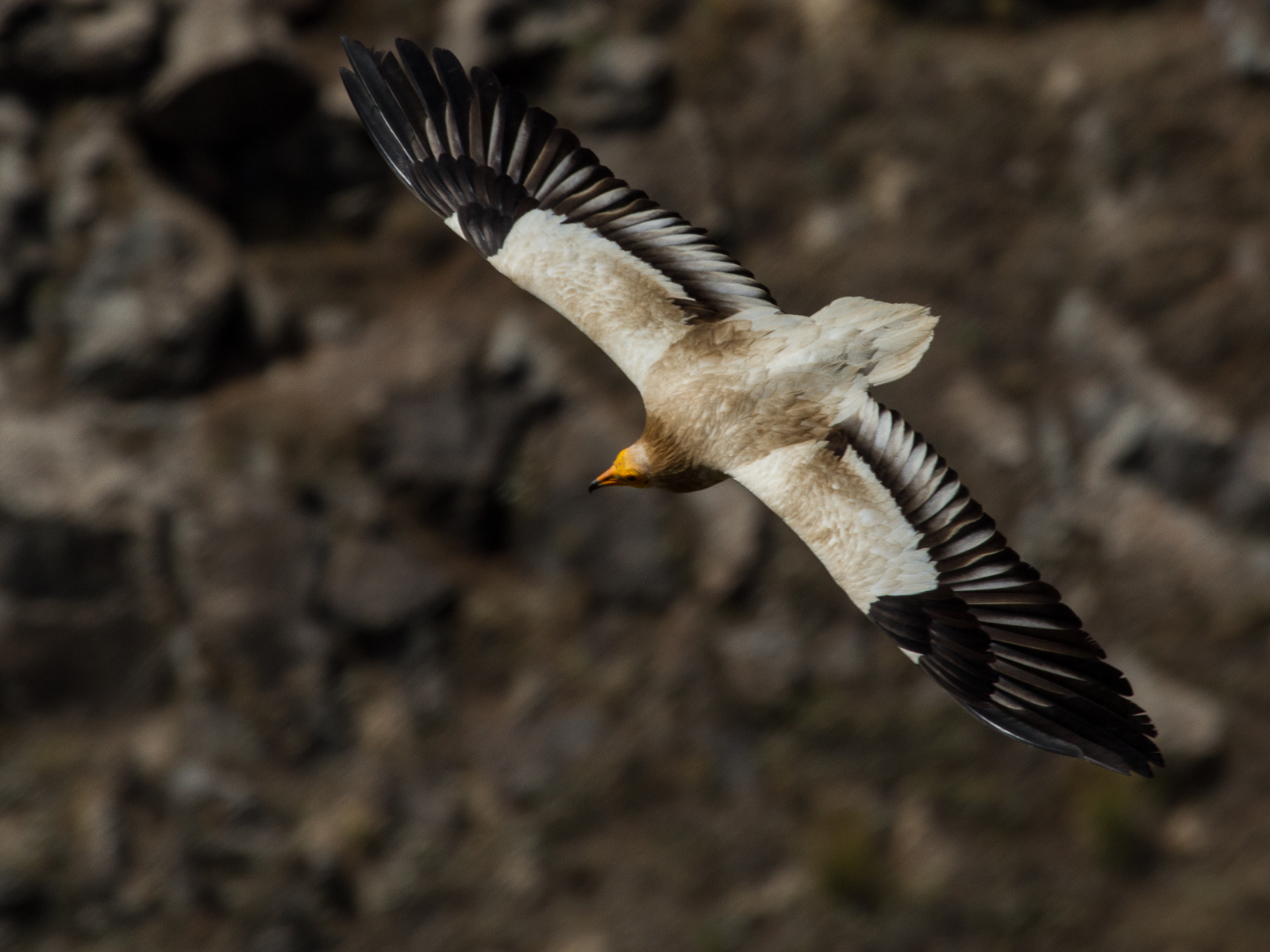 Egyptian vulture in flight over Gamla nature reserve in Israel